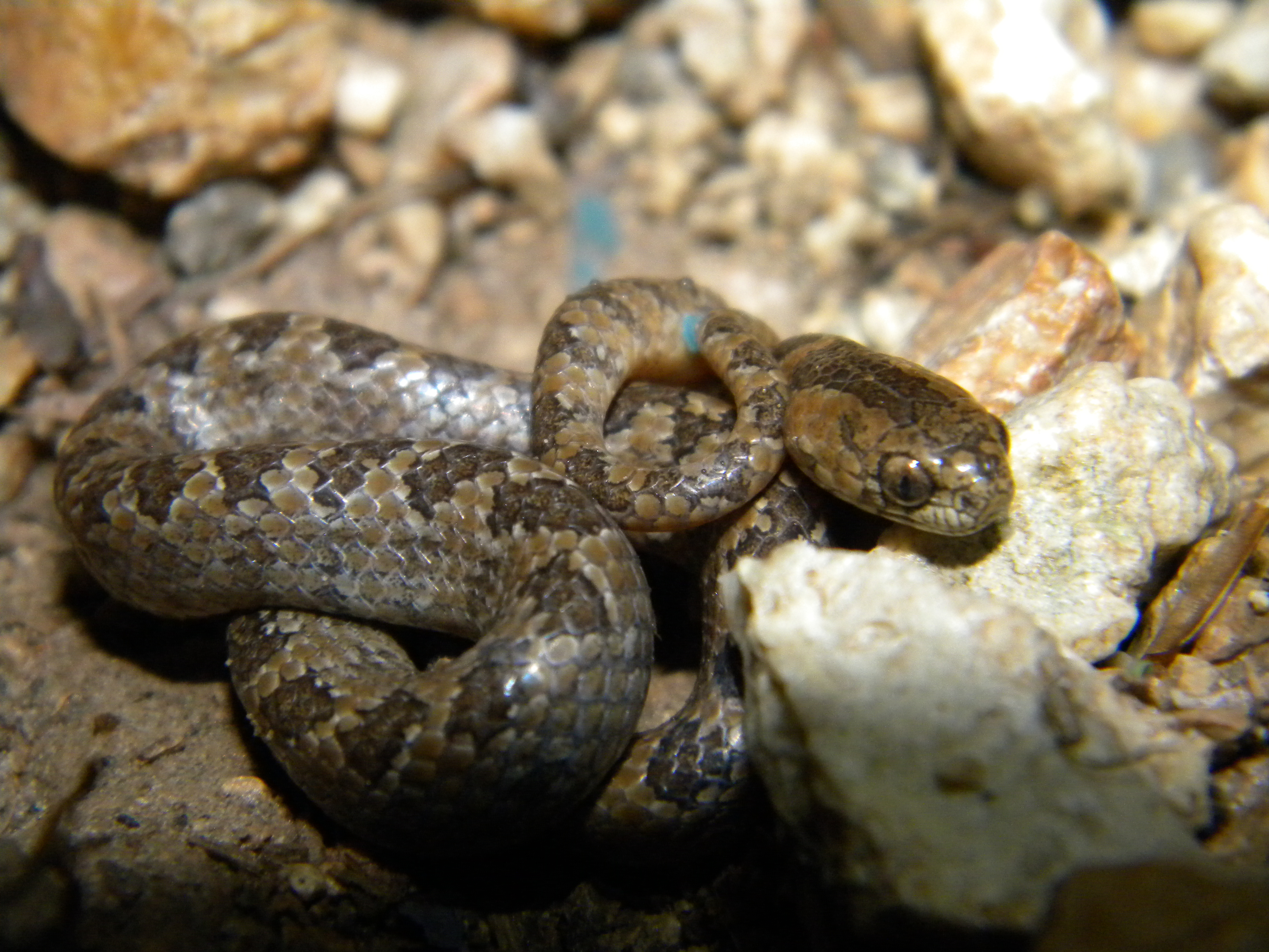 Sibon sanniola in Merida, Yucatan, Mexico